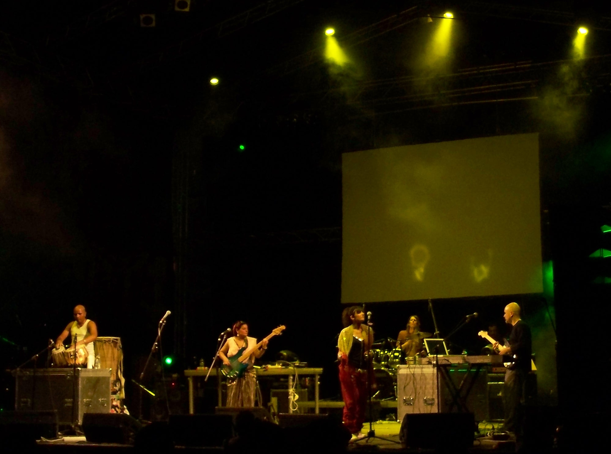 Ethnik music group Transglobal underground live in Athens June 2007 for the European Day of Music.